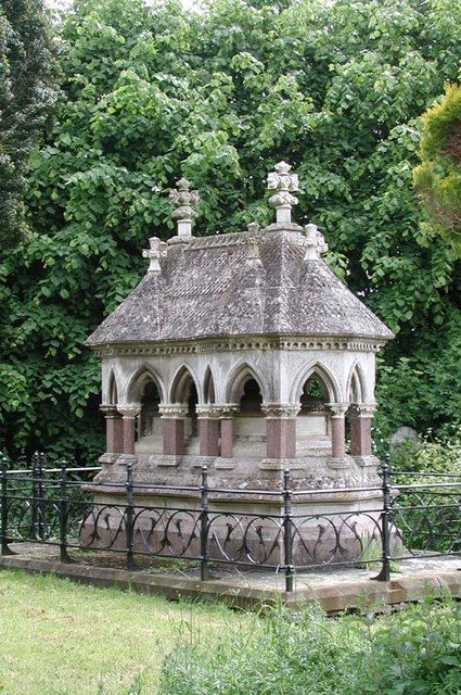 All Saints' parish churchyard, Middleton Cheney, Northamptonshire: Horton family mausoleum, designed by William Wilkinson and made by Thomas Earp in 1866–67